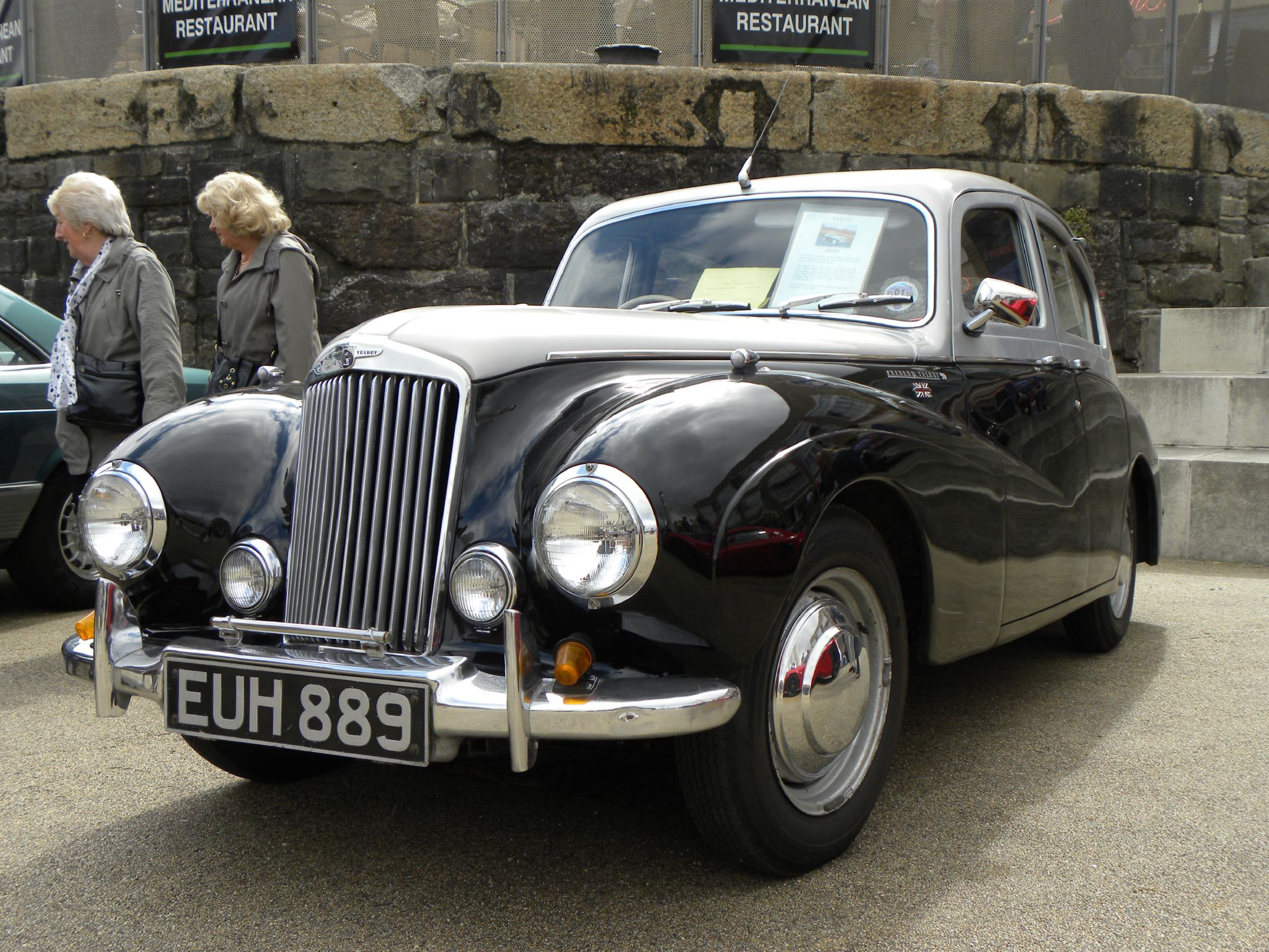 Sunbeam Talbot 90 (spat removed) (DVLA) first registered 2 January 1950, 1944 cc